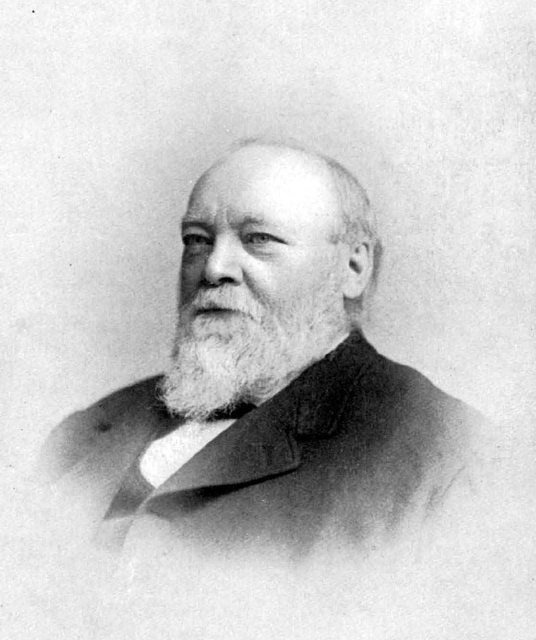 Portrait of United States chemist Frederick Augustus Genth